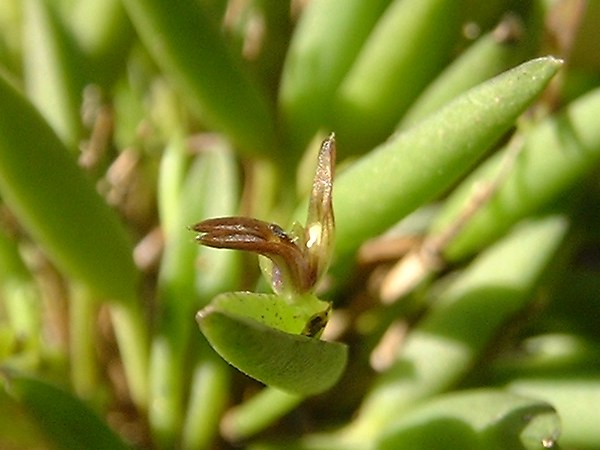 Photo by Dalton Holland Baptista and Americo Docha Neto for Orchidstudium